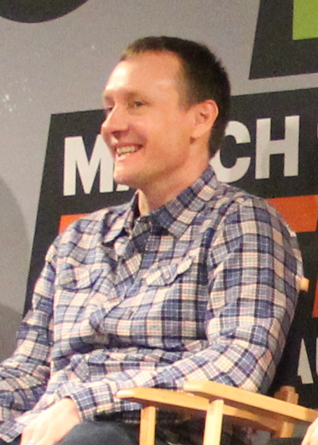 Alec Berg at "SILICON VALLEY: Making the World a Better Place", a panel at SXSW 2016 starring the cast and creators of Silicon Valley (TV series).